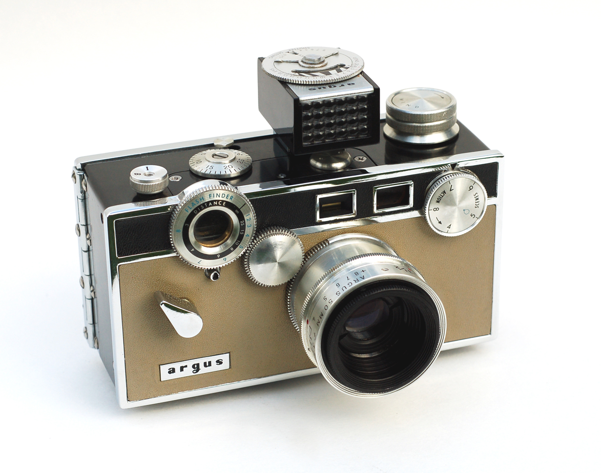 A very popular collectible made even more popular by its appearance in the 2nd Harry Potter movie. This is just a cool camera, from its impressive dials and gears, to its nifty two-tone skin and bright chrome trim. This example is shown topped with the clip-on selenium meter. Because of its shape (and weight), the Argus C3 is affectionately known as "The Brick". Made from 1958-66.